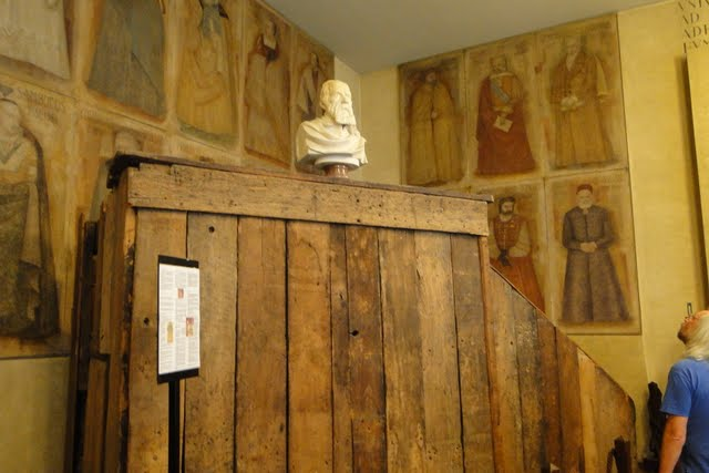 Rostrum of Galelei, University of Padua